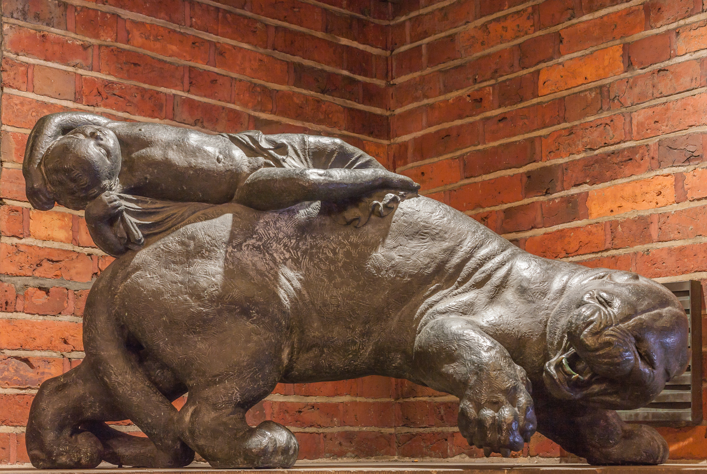 Panther carrying the Night. Sculpture in Bremen, Böttcherstrasse created 1912 by Bernhard Hoetger. Das abgebildete Objekt ist ein geschütztes Kulturdenkmal in der Freien Hansestadt Bremen, mit der Nr. 1497,T001 beim Landesamt für Denkmalpflege registriert.